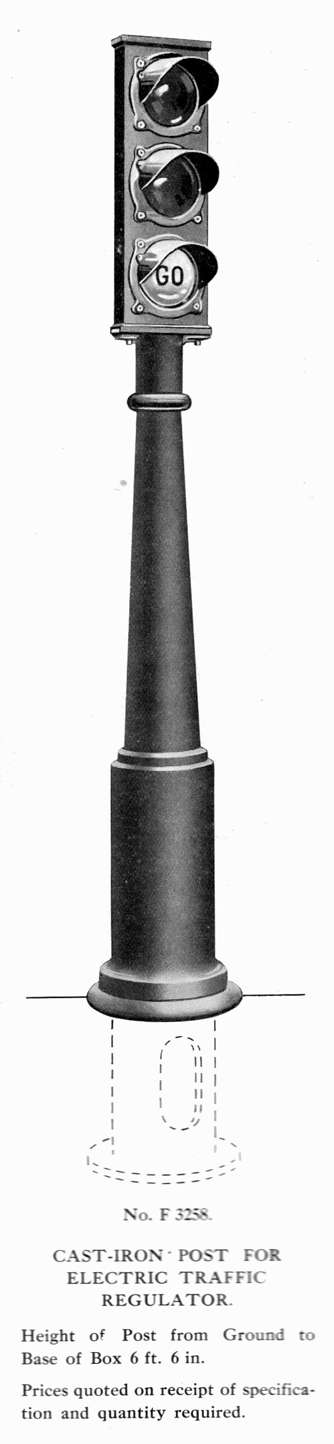 From 1930 General Catalogue No. 330. Pryke & Palmer Ltd., Upper Thames St., London E.C.4.